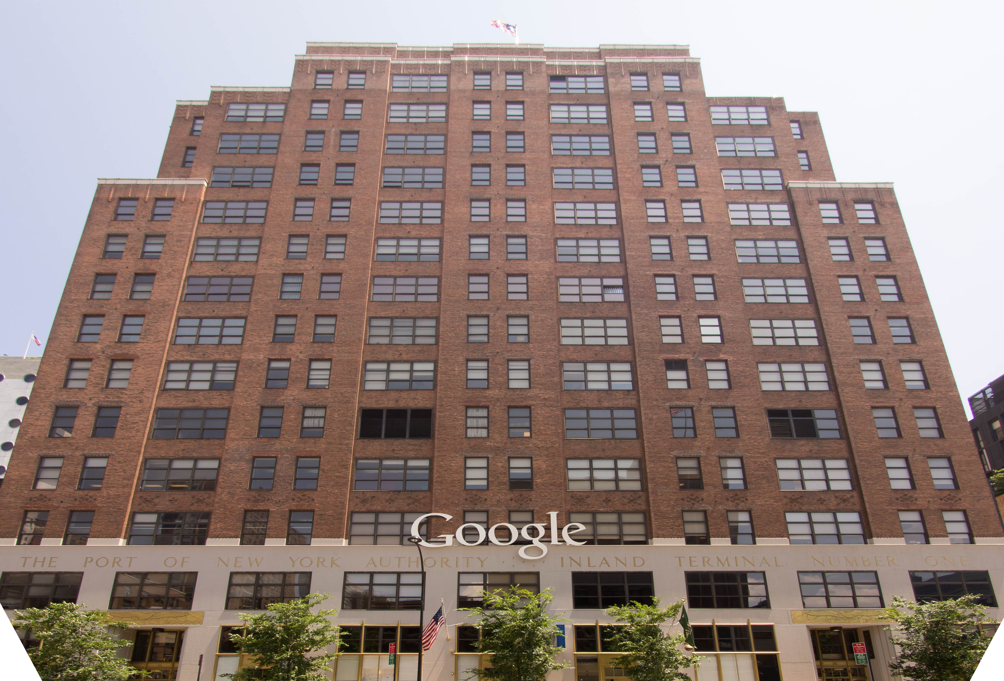 A photograph of the Ninth Avenue façade of 111 Eighth Avenue, in the Chelsea district of Manhattan. This image features a recently added Google corporate logo, the current owner and major occupant of the building as of the time this photograph was taken.